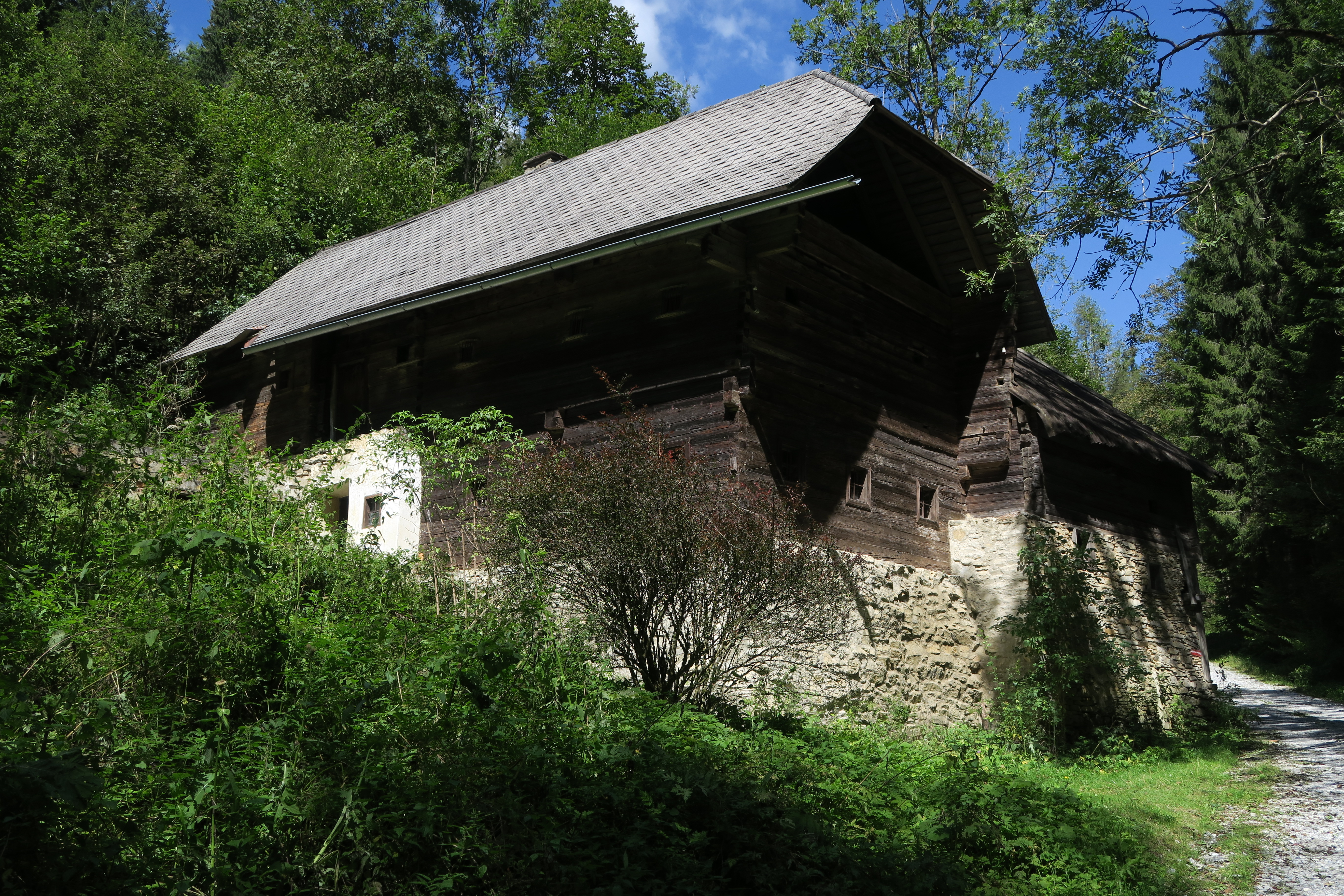 Grabenbauer Schrems 76